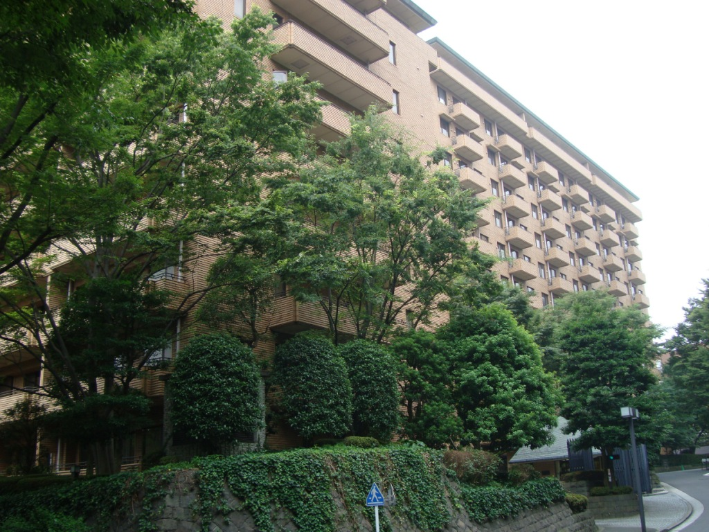 The South Hill section, Hiroo Garden Hills complex, Shibuya city, Tokyo